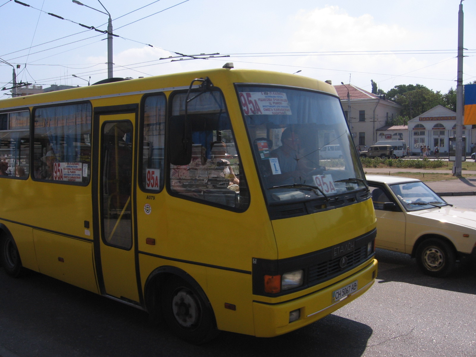 Marshrutka the 95a in Sevastopol near the stop on Vosstavshikh Square. Bus model is BAZ A079 "Etalon" (БАЗ-А079 Еталон).